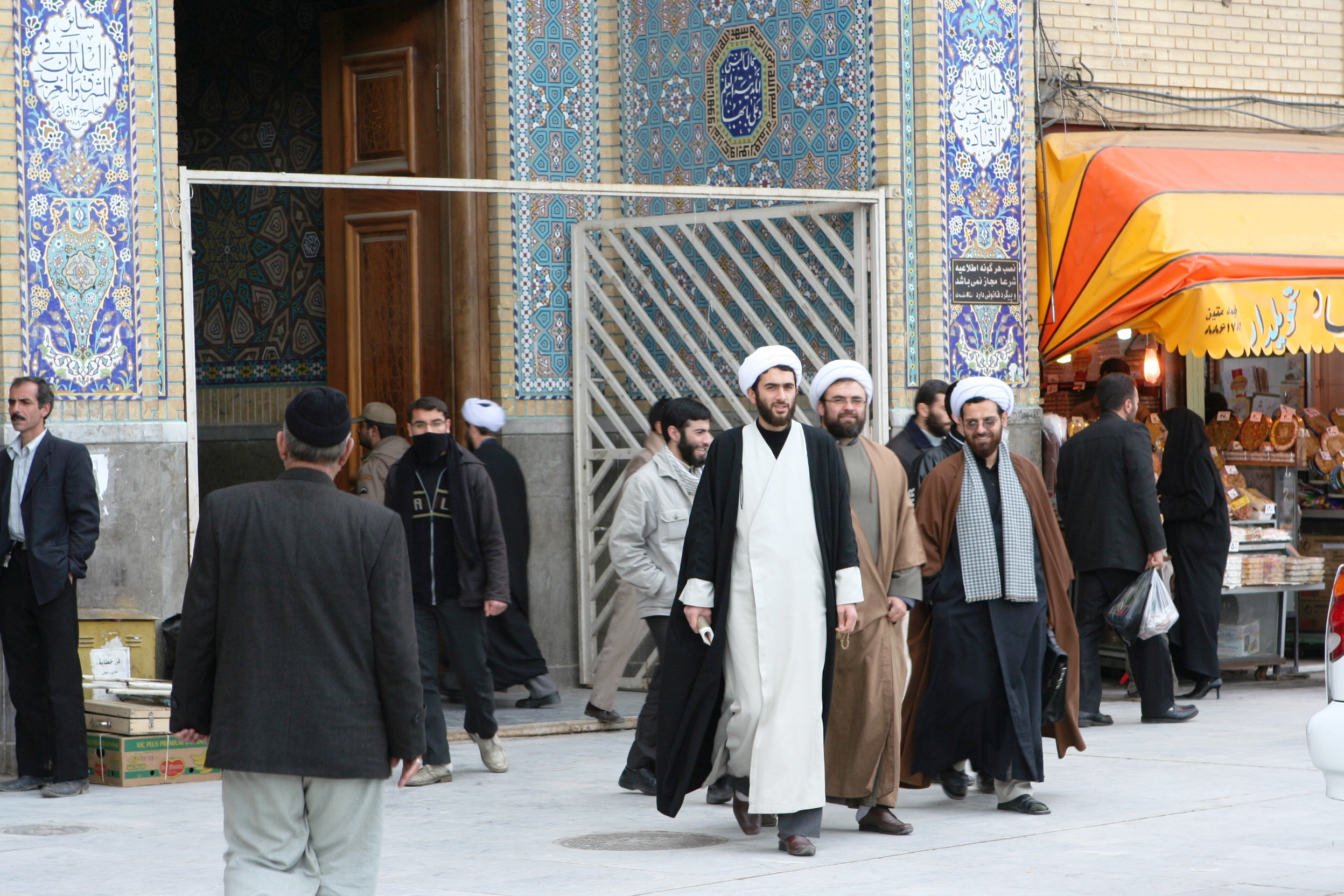 Seminary for mullahs in Qom, which is the largest center for Shi'a scholarship in the world.